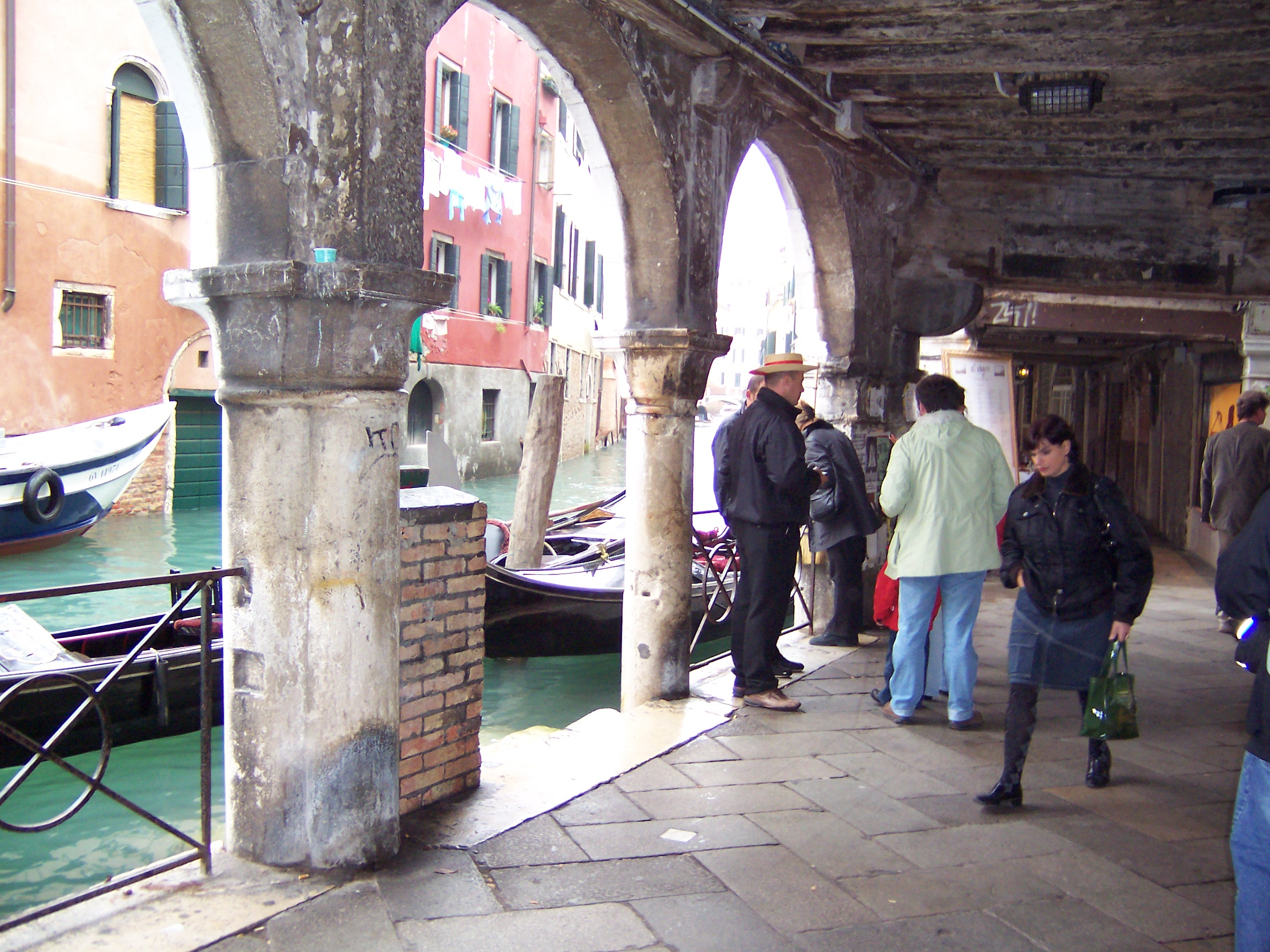 A Venetian sidewalk, Venice, Italy